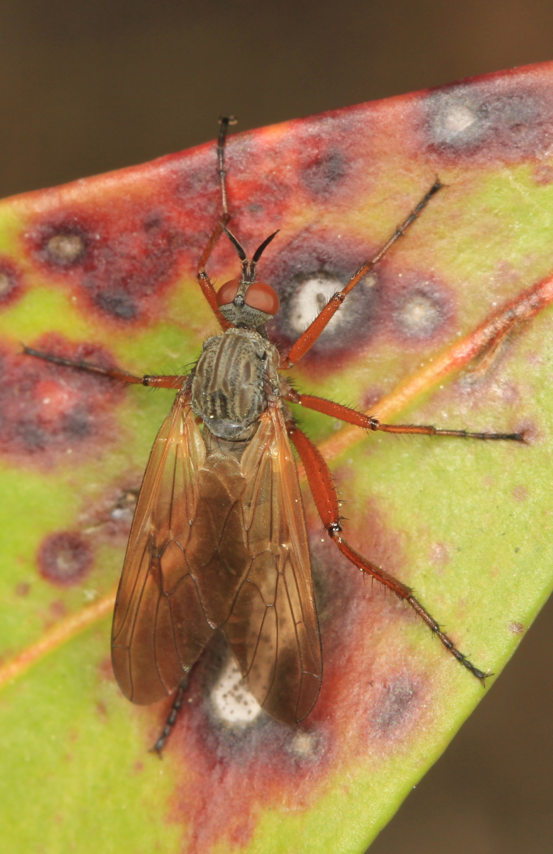 Dance Fly - Empis spectabilis, Prince William Forest Park, Triangle, Virginia.